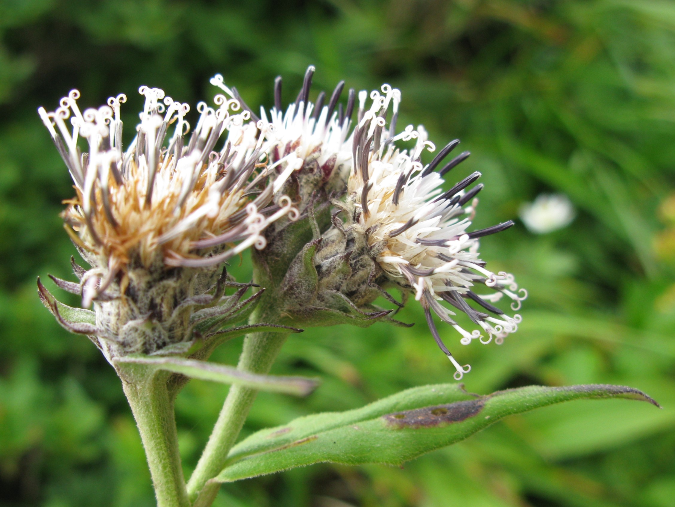 Saussurea franchetii, Mount Gassan, Yamagata pref., Japan